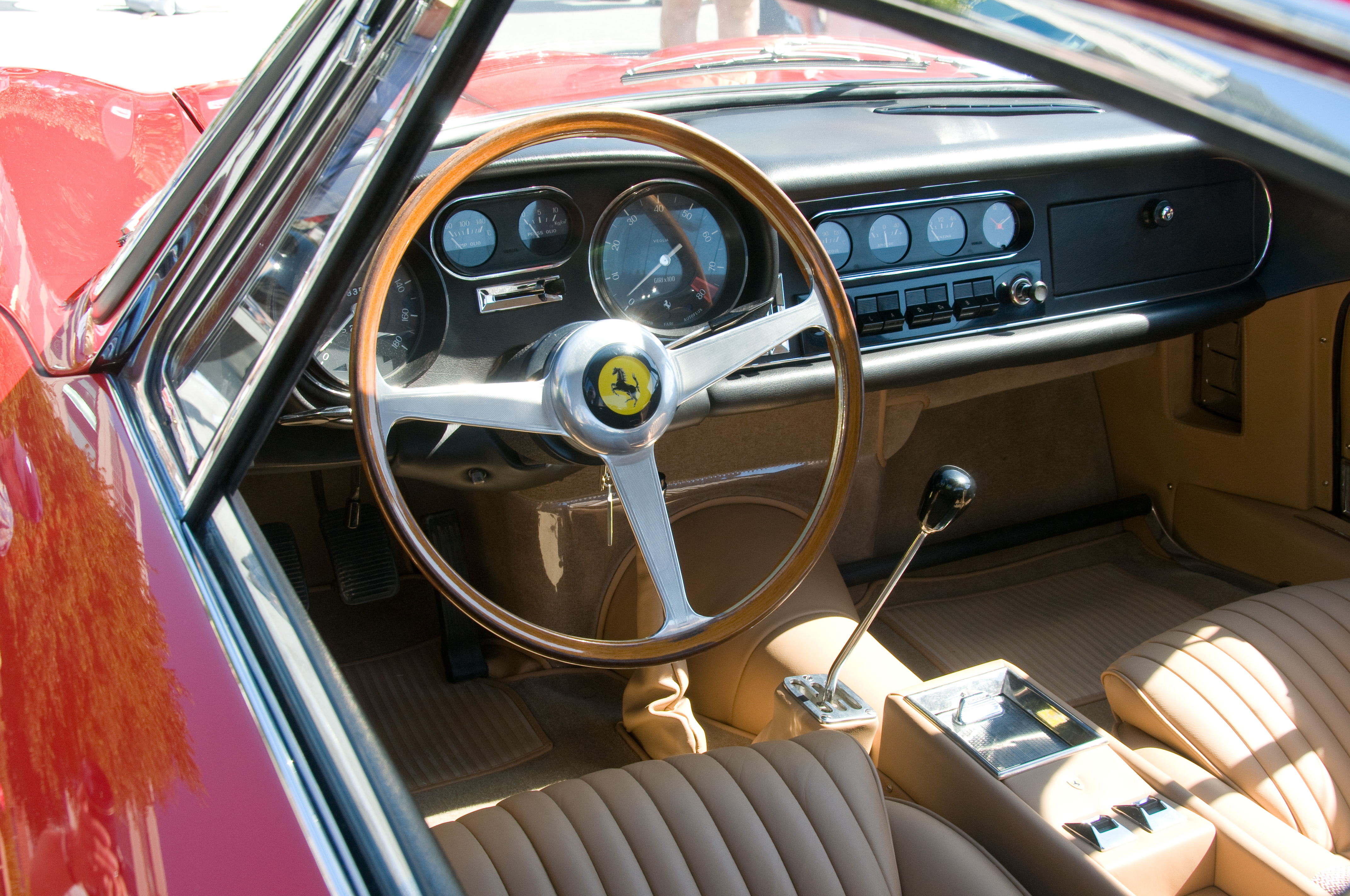 This is a picture of a vehicle (name of it is on the file name).